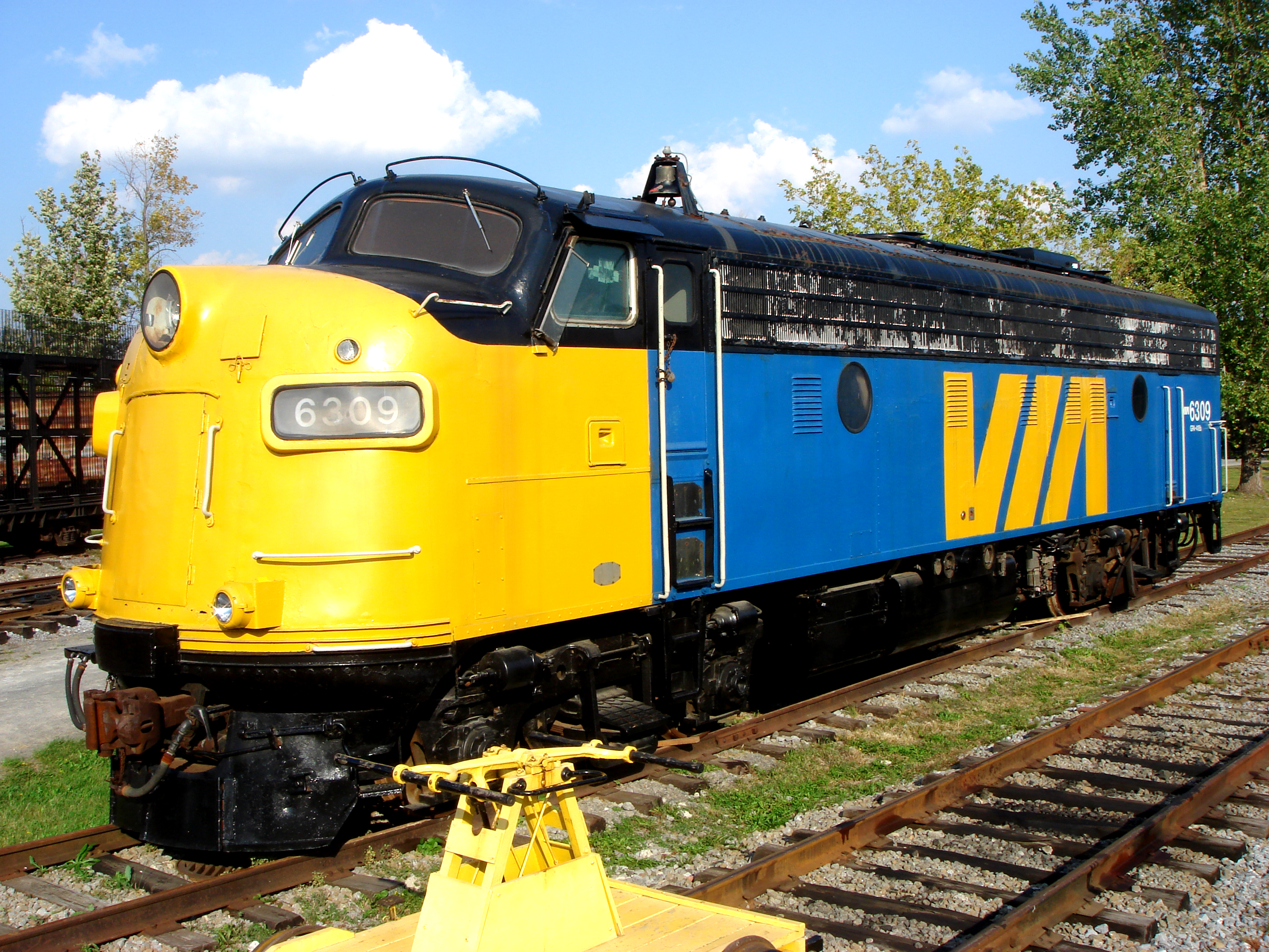 Restoring